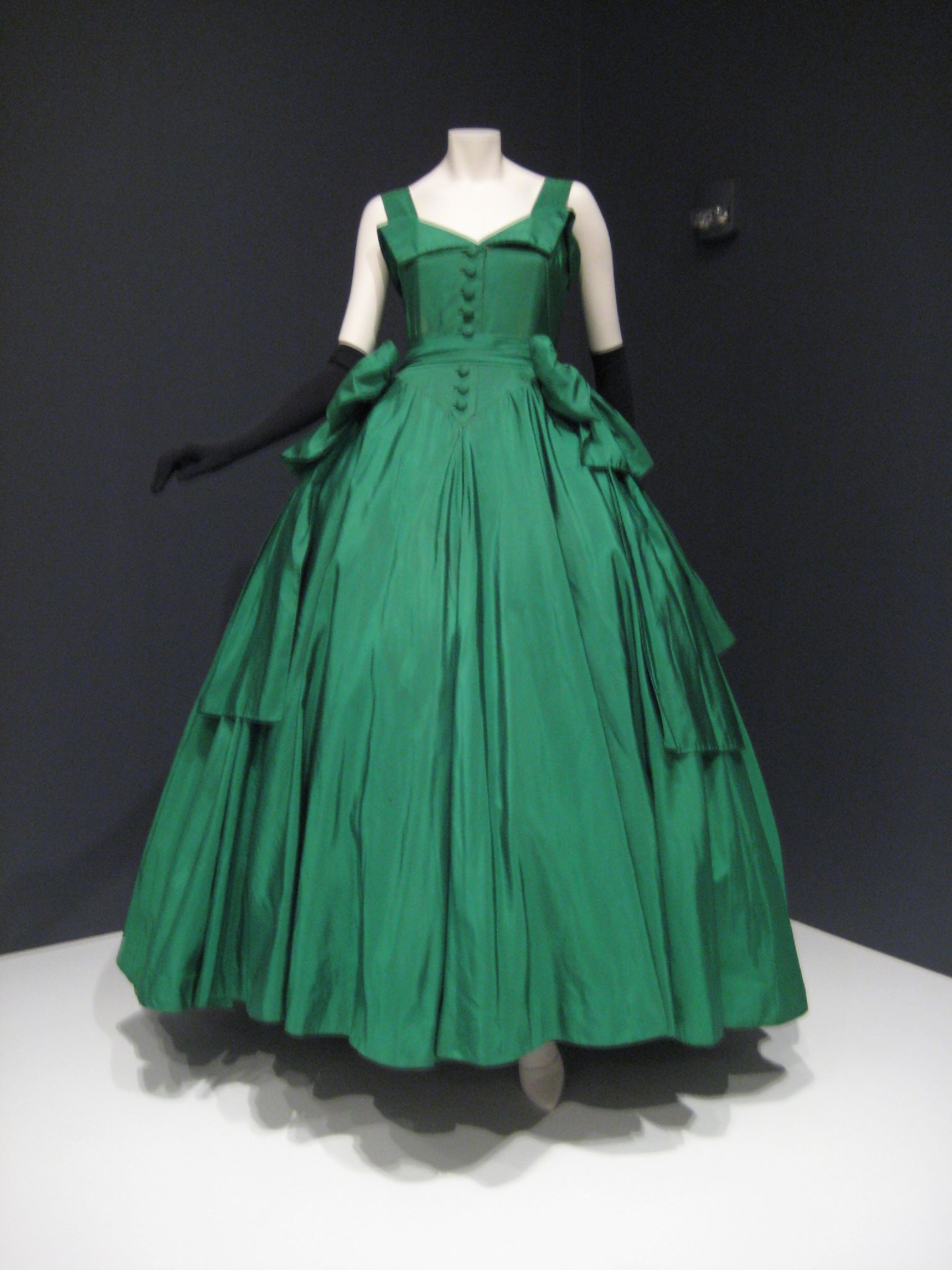 Christian Dior evening dress of 1954 on exhibit at the Indianapolis Museum of Art